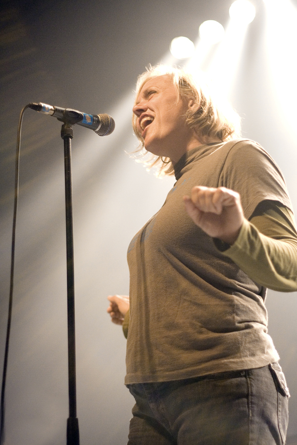 A photograph of American rock vocalist Linda Hopper from alternative rock band Magnapop singing at Het Depot in Leuven, Belgium on 2006-04-21